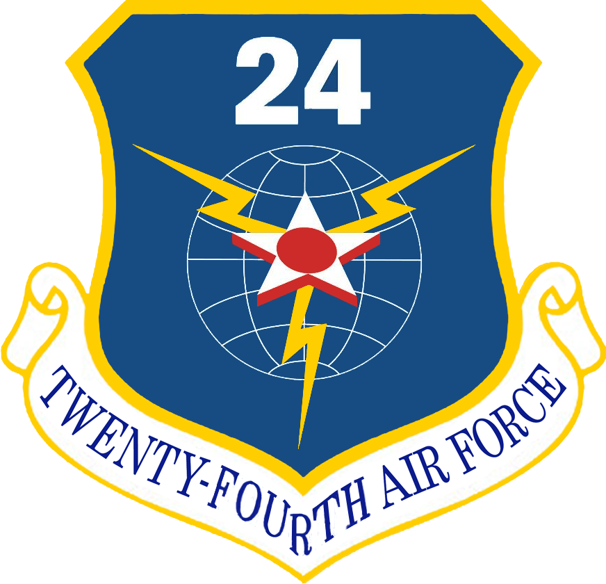 Emblem of the 24th Air Force of the United States Air Force